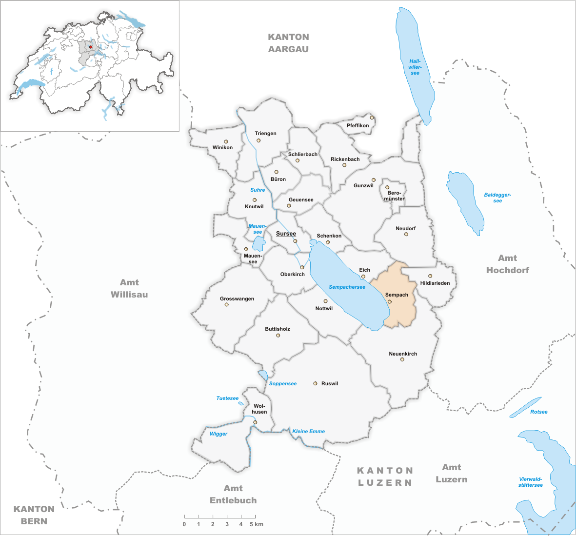 Municipality Sempach